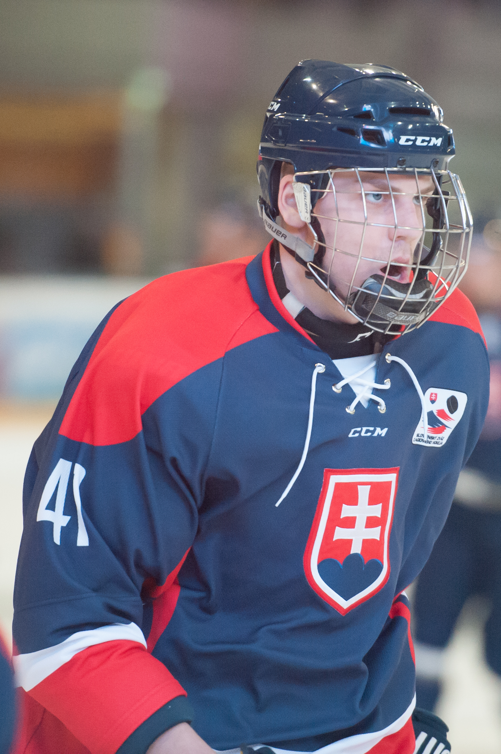 Euro Ice Hockey Challenge Vienna, February 7, 2015, Austria vs. Slovakia